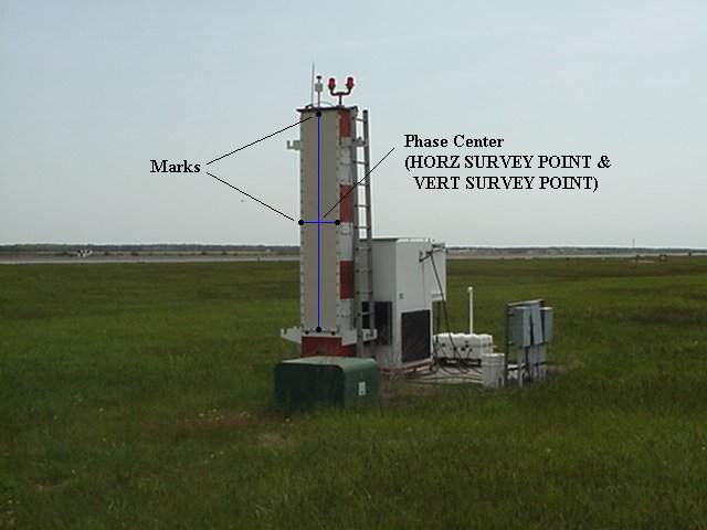 MLS Elevation Guidance. MLS-EL Horizontal and Vertical Survey Point:phase center.